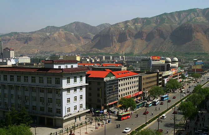 Street of Xining, Qinghai, China